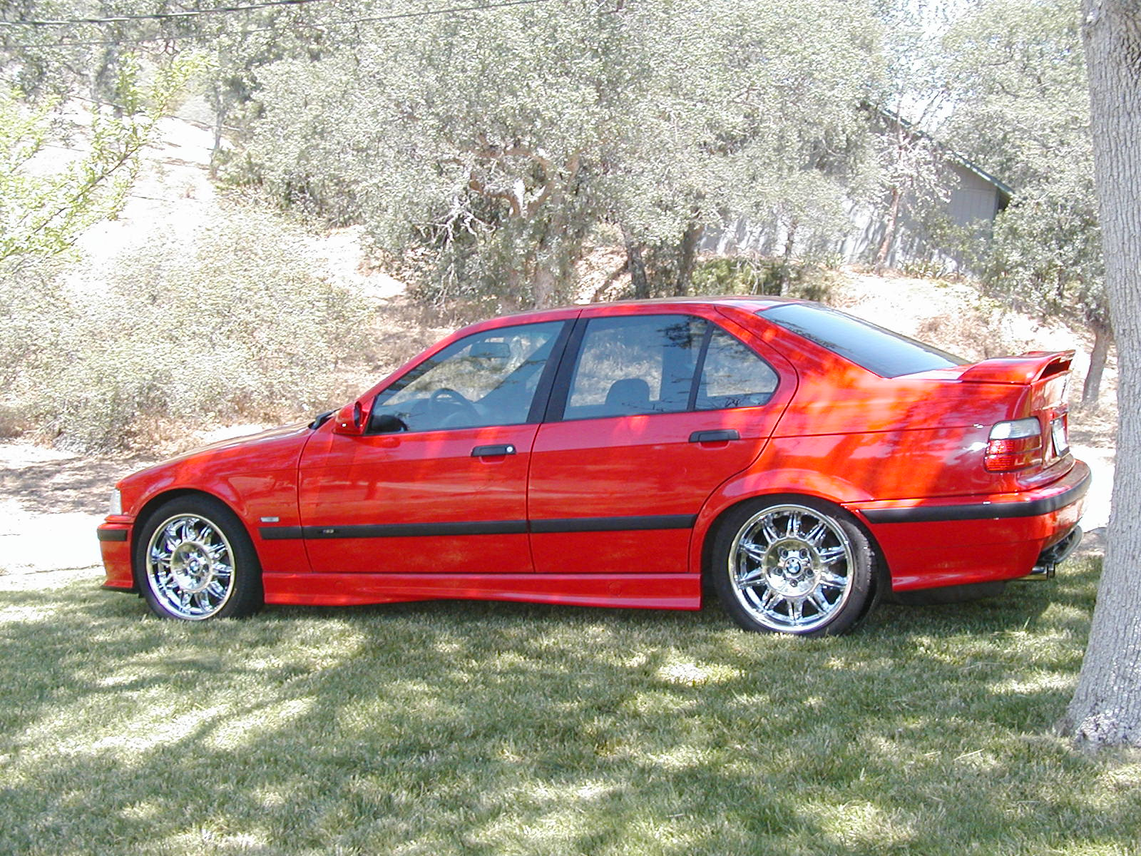 This is my '97 M3 sedan. One of the rarest M3 configurations. After all these years it still tears up the track and turns heads. I've tried to make tasteful modifications and upgrades over the years such as Dinan suspension, upgraded polyurethane suspension bushings, built-in Valentine1 radar detection (display built into rear-view mirror with V1 hidden), performance intake, and european lighting.